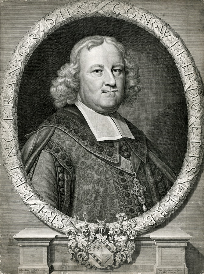 Konrad Wilhelm von Wernau (1638-1684), Fürstbischof von Würzburg